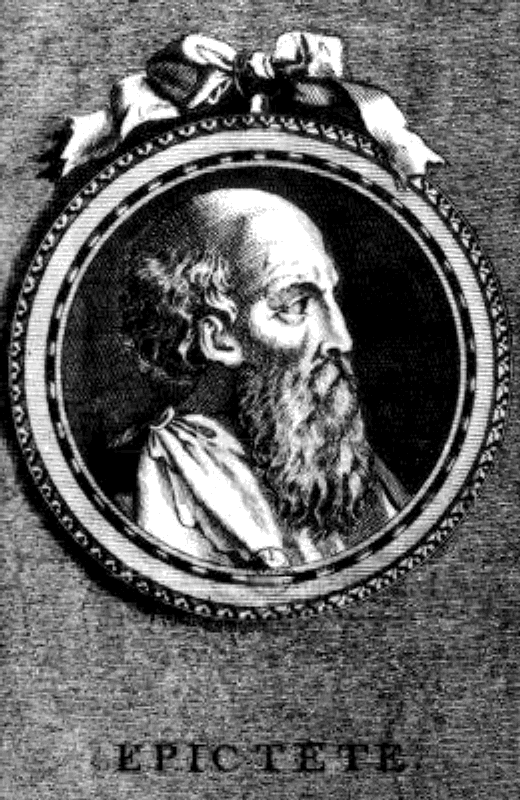 Epictetus, (Artist's Impression), 1st/2nd century Stoic philosopher. (Epiktetos, Epiktet, Epicteto, Epitteto, Epictete)